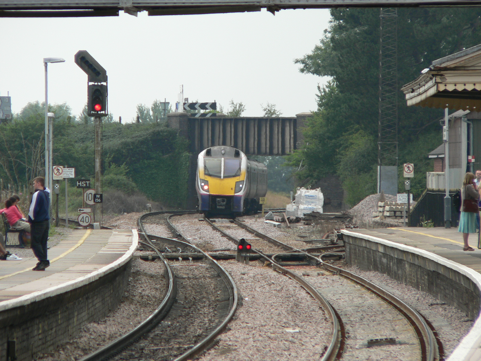 First Great Western Class 180 DMU 180110 approaches platform 1 at Castle Cary railway station in Somerset with a semi-fast service to London Paddington.